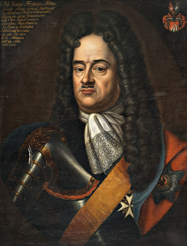 Portrait of Johann Georg von Tettau (1650-1713)